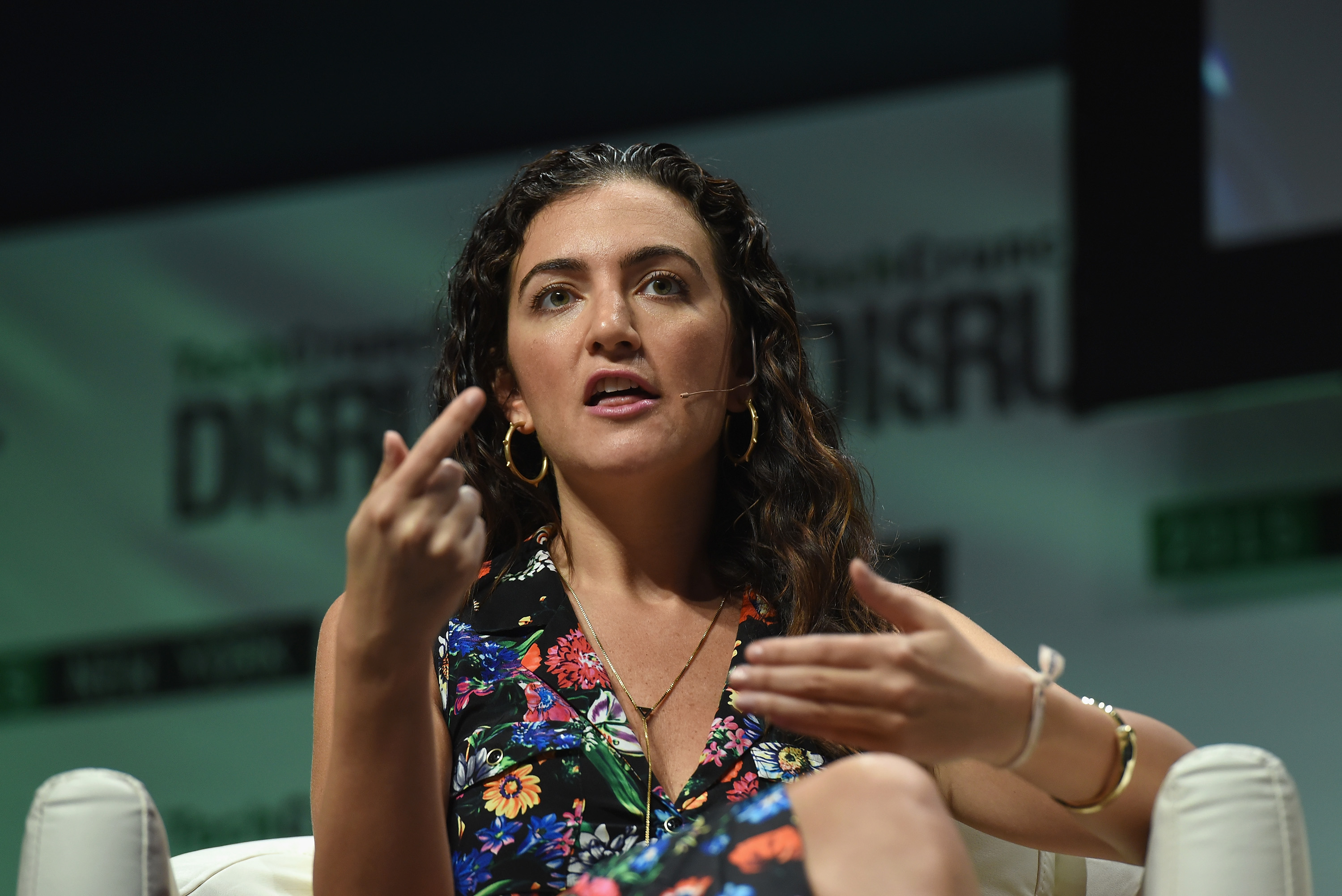 NEW YORK, NY - MAY 04: Co-Founder and Chief Executive Officer of Rent the Runway, Jennifer Hyman speaks onstage during TechCrunch Disrupt NY 2015 - Day 1 at The Manhattan Center on May 4, 2015 in New York City. (Photo by Noam Galai/Getty Images for TechCrunch)